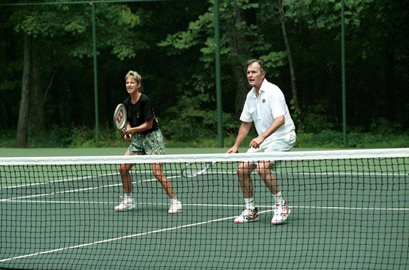 President George H. W. Bush playing tennis with Chris Evert at Camp David.